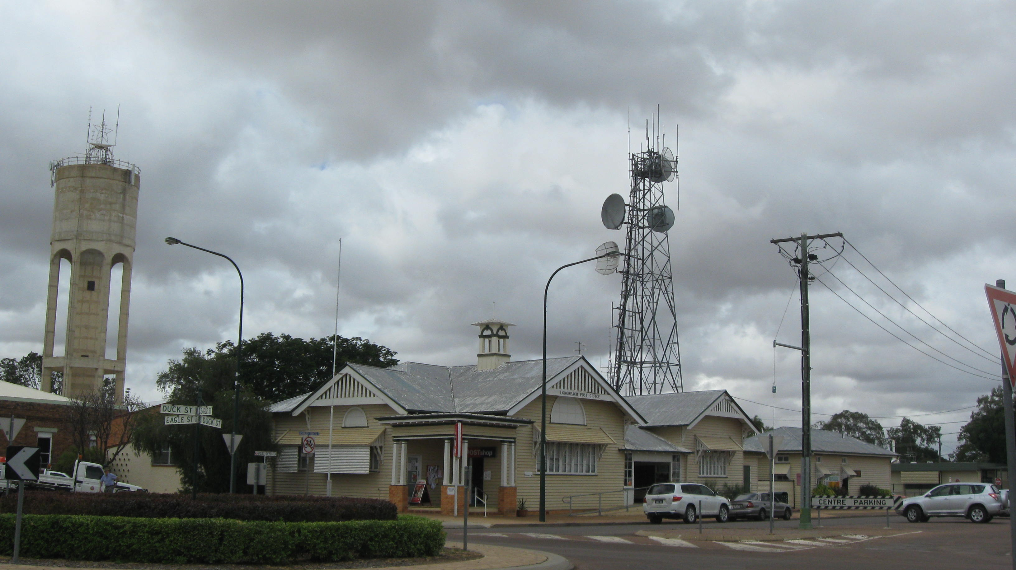 Longreach post office.